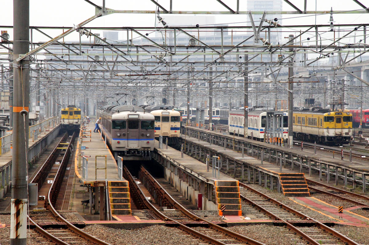 JR West Shimonoseki Car Maintenance Center Hiroshima Branch